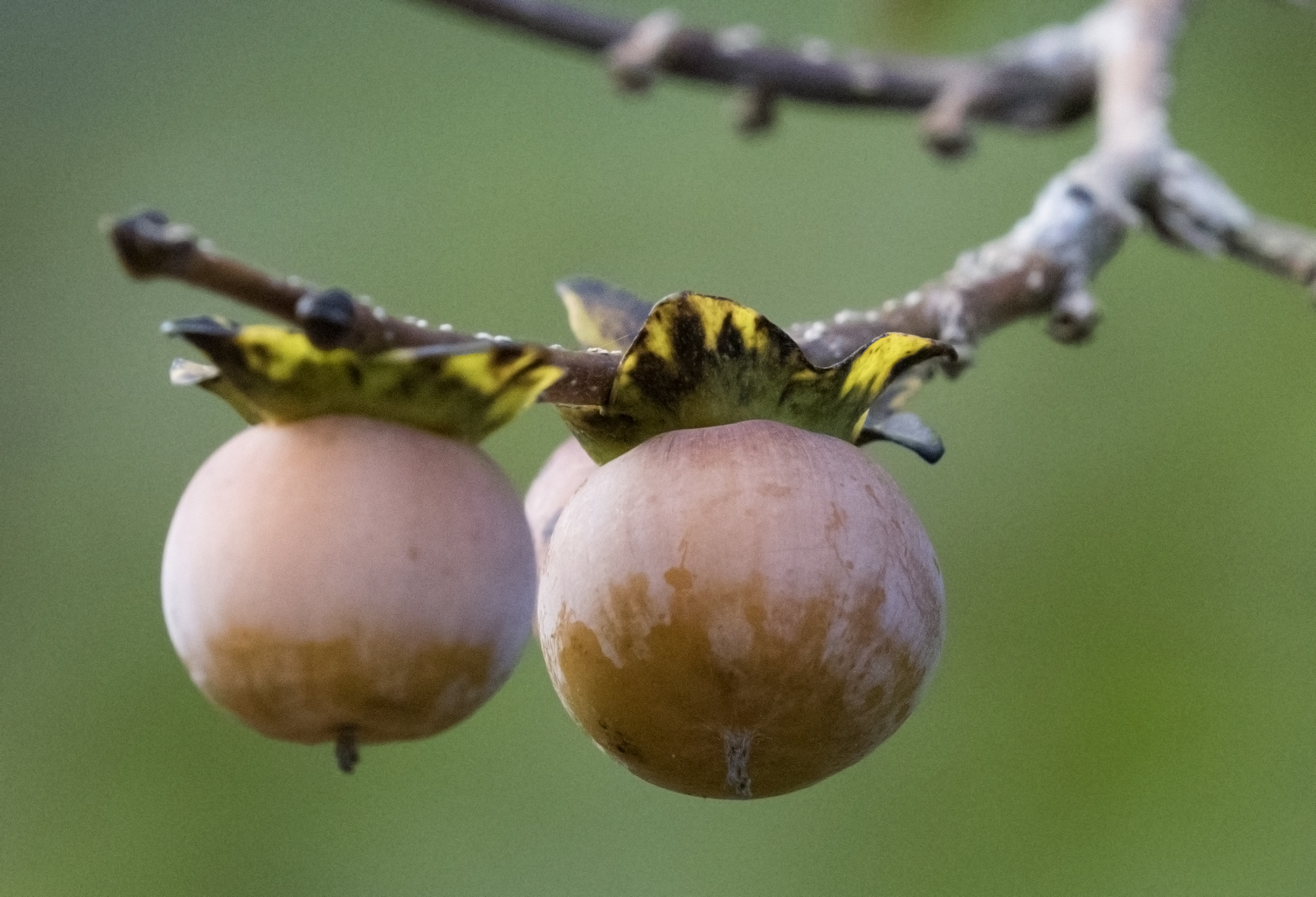 Fruits of wild persimmon (Diospyros lotus). Espiye - Giresun, Turkey.